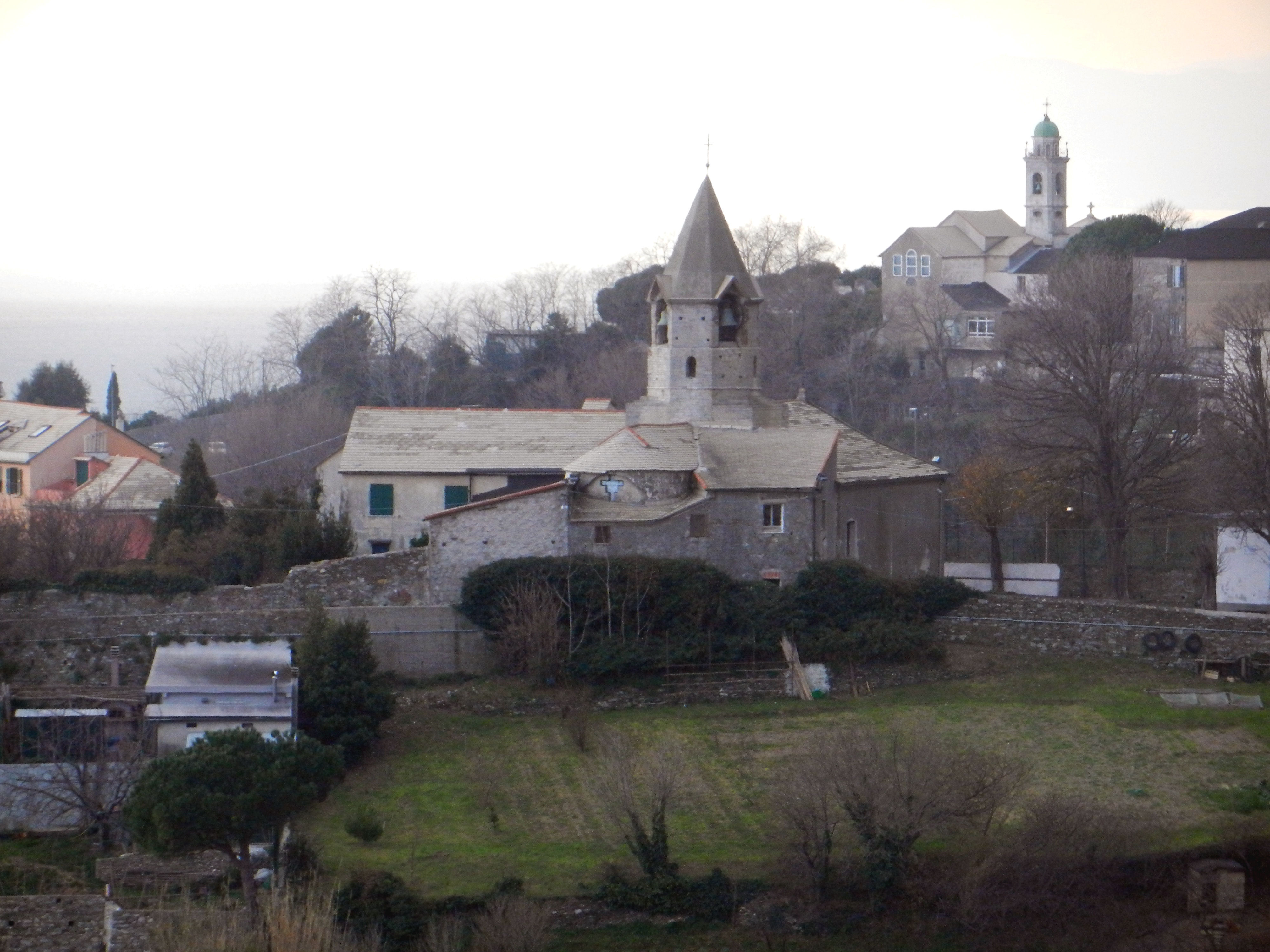 Genoa, Italy, quarter of Sampierdarena, church of San Bartolomeo at Promontorio